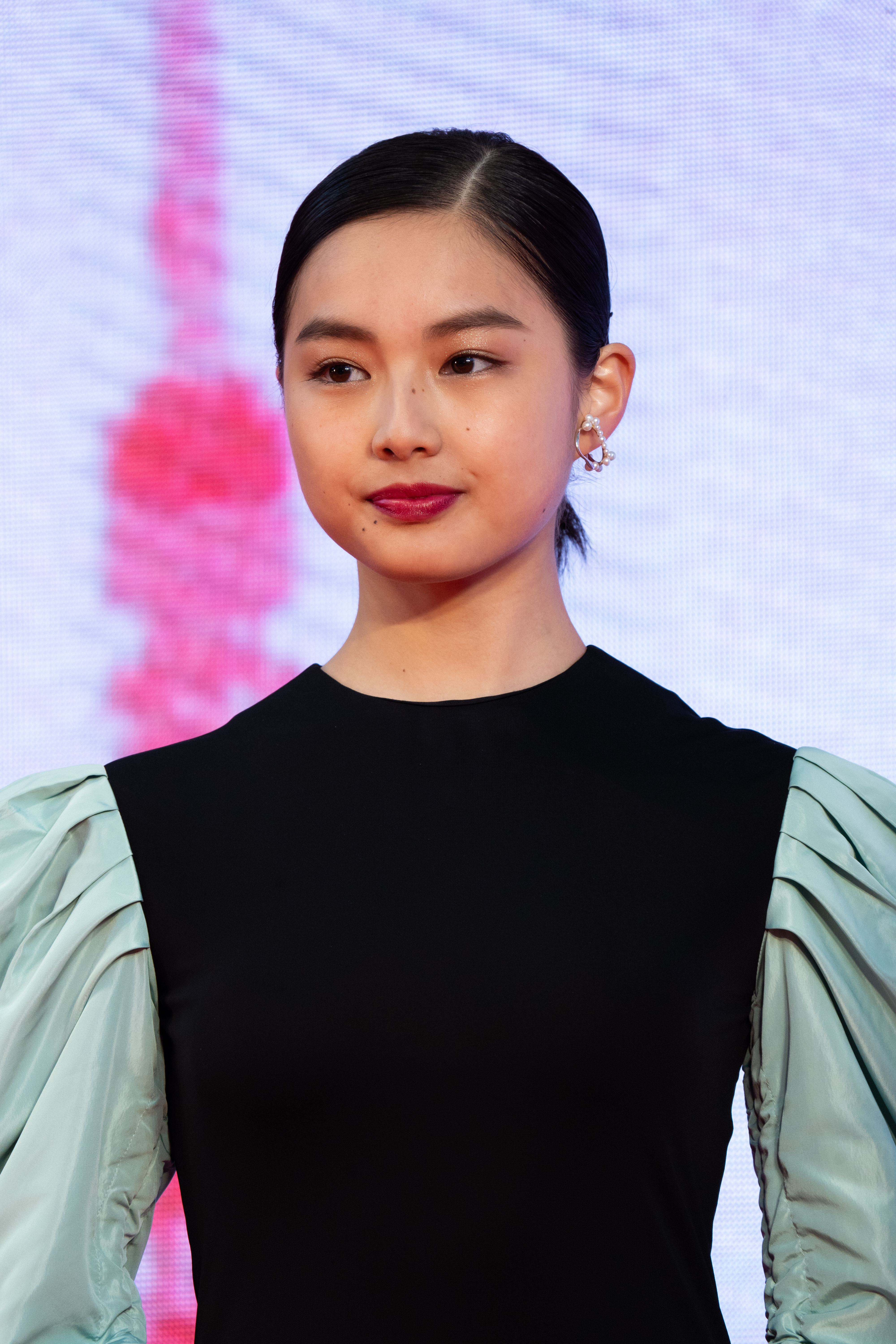 Yanai Yumena from "He Won't Kill, She Won't Die" at Opening Ceremony of the Tokyo International Film Festival.